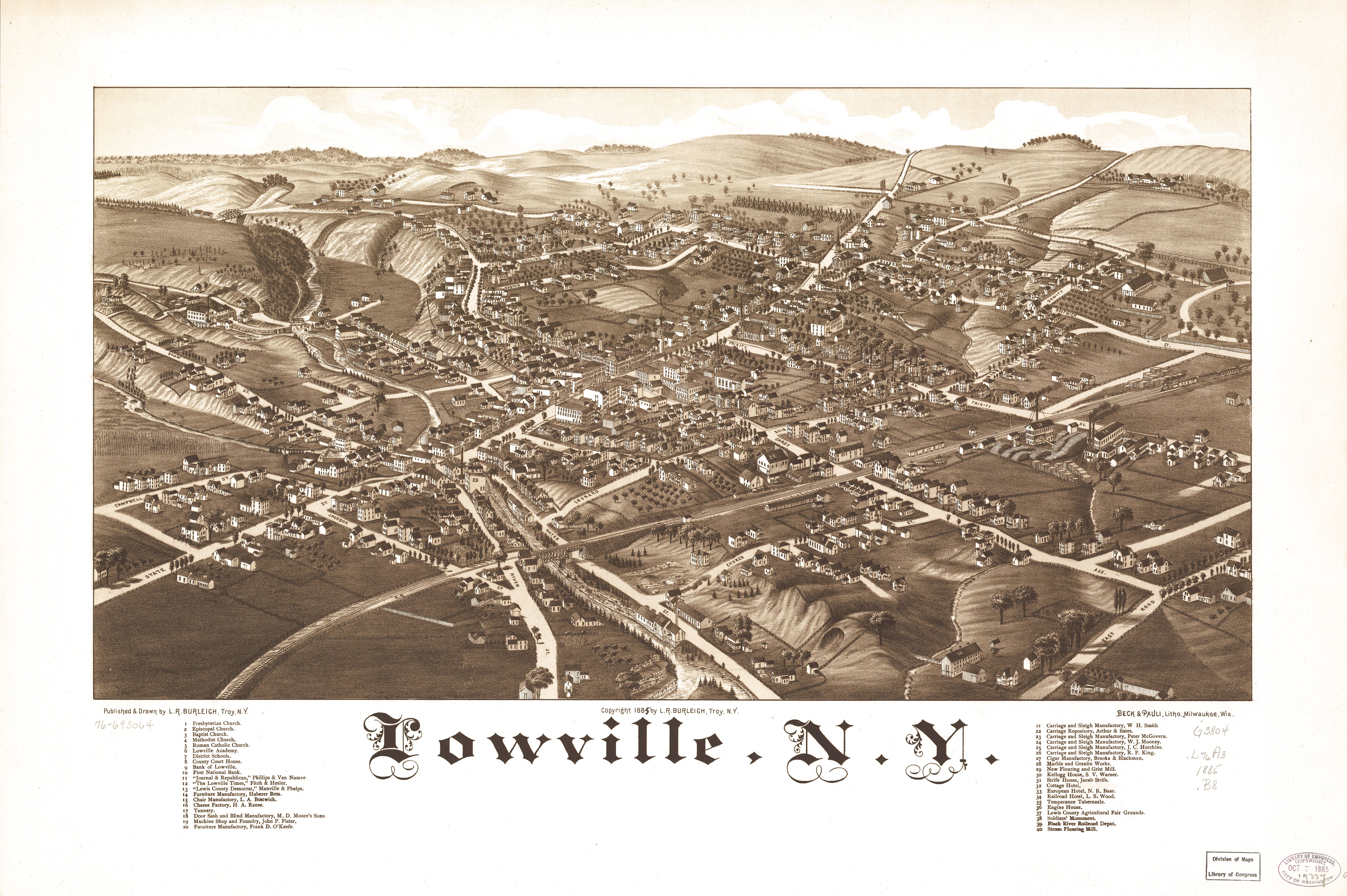 Perspective map not drawn to scale. Bird's-eye-view. LC Panoramic maps (2nd ed.), 582 Available also through the Library of Congress Web site as a raster image. Indexed for points of interest. AACR2